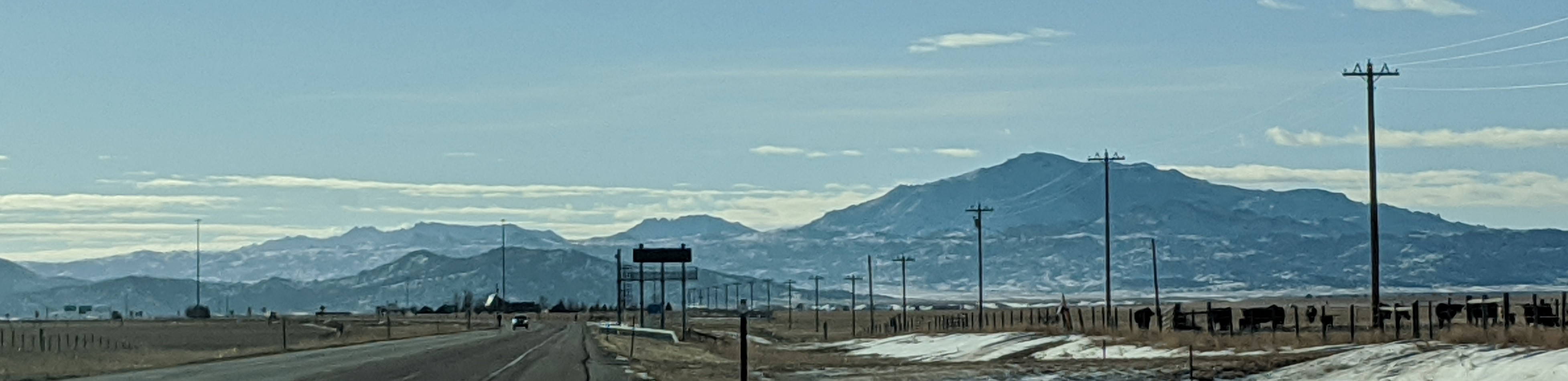 Laramie Mountains viewed from 40 miles on U.S. Route 26. From right to left: Laramie peak, South Mountain, and Bearhead Mountain.